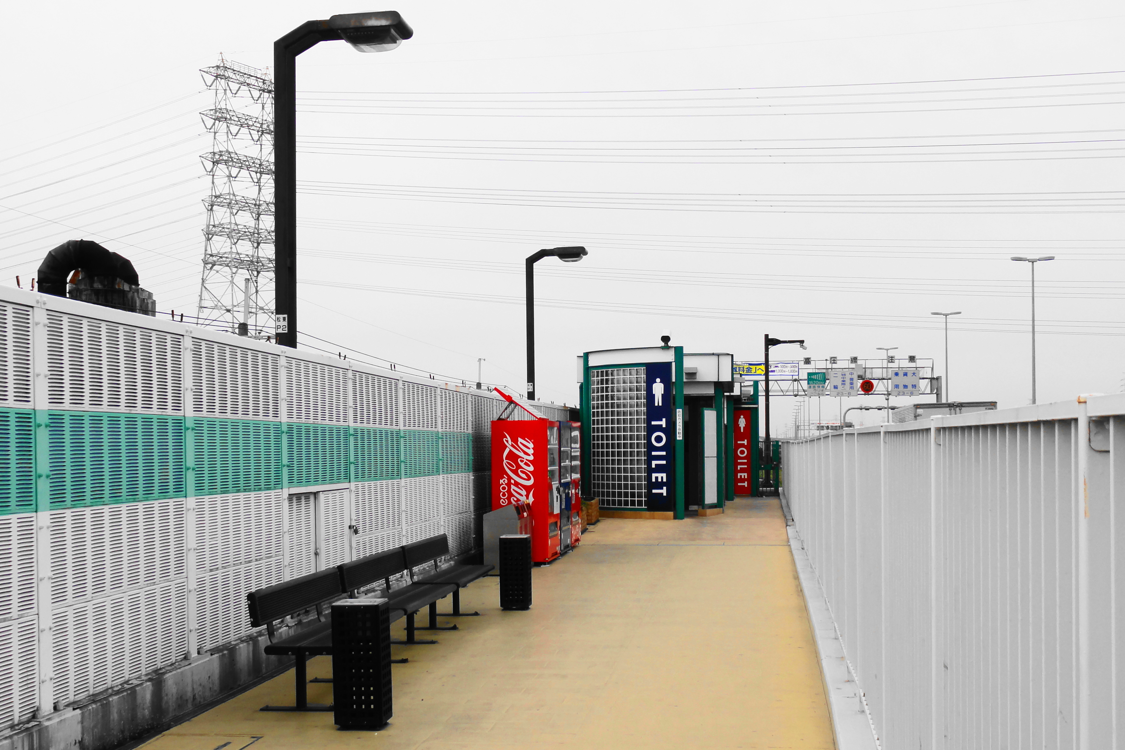 Miyake mini Parkig Area,Osaka prefecture, Japan